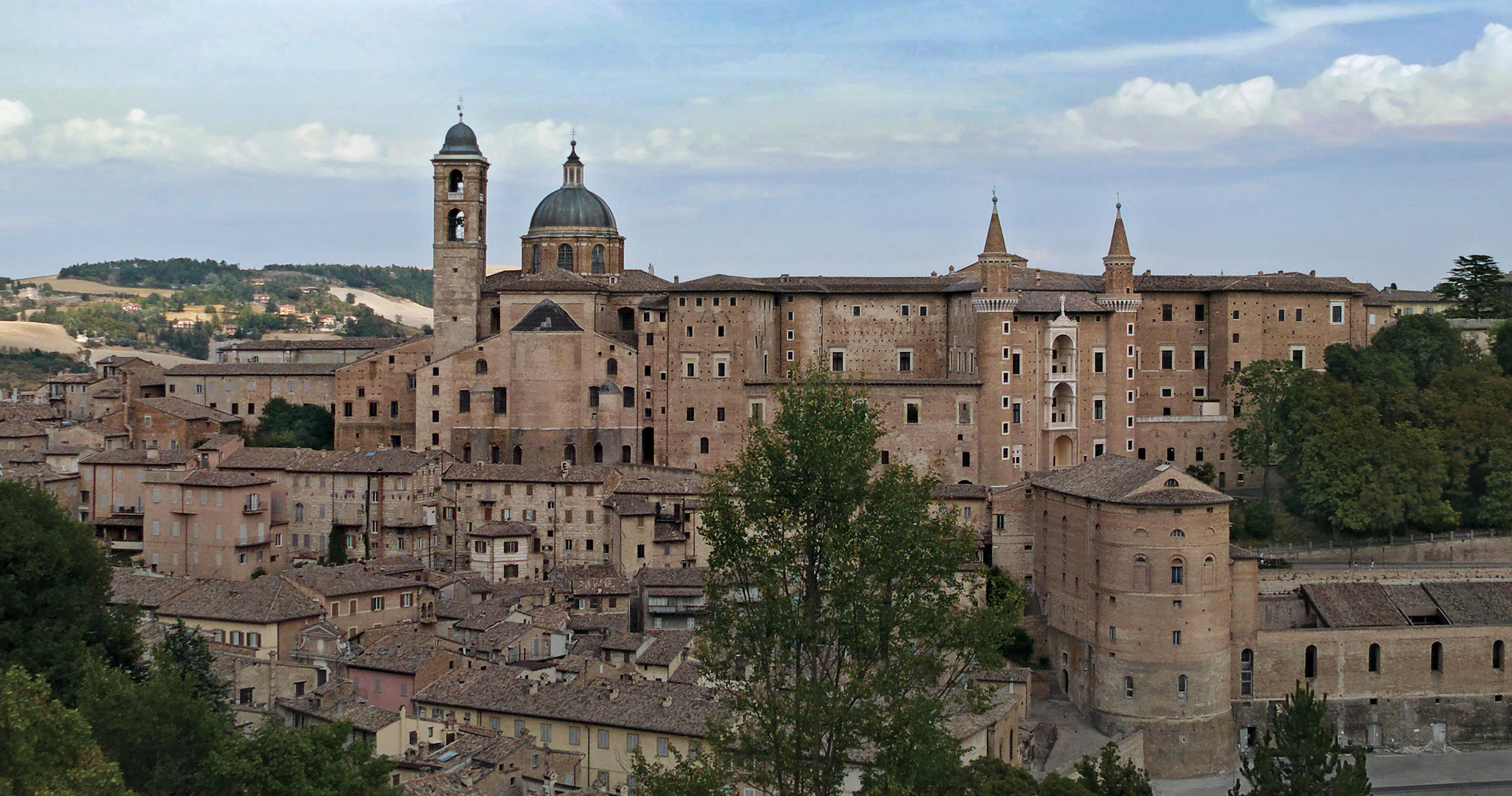 Urbino